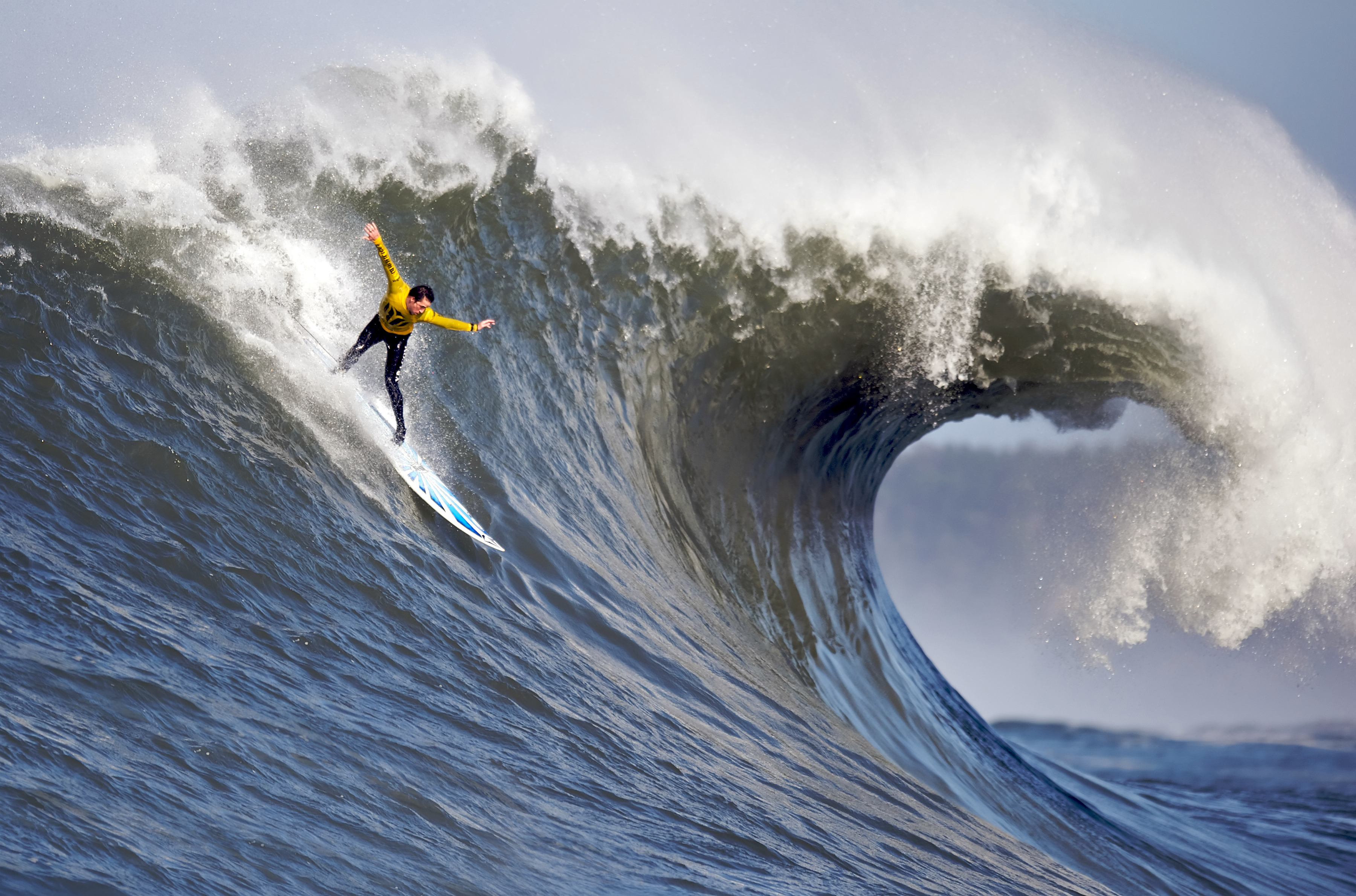 2010 Mavericks surfing competition. The image was taken from a boat. Here's Shalom's description of his experience: "The boat was very rocky. Many people got sea sick though. One guy (photog) never even got any pictures he was so sick."